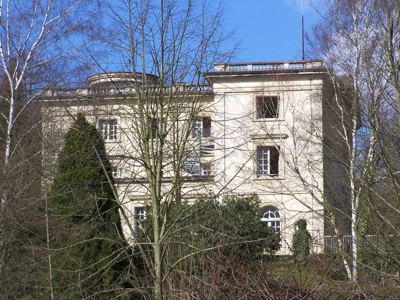 Castle of Aigremont (Yvelines, France)